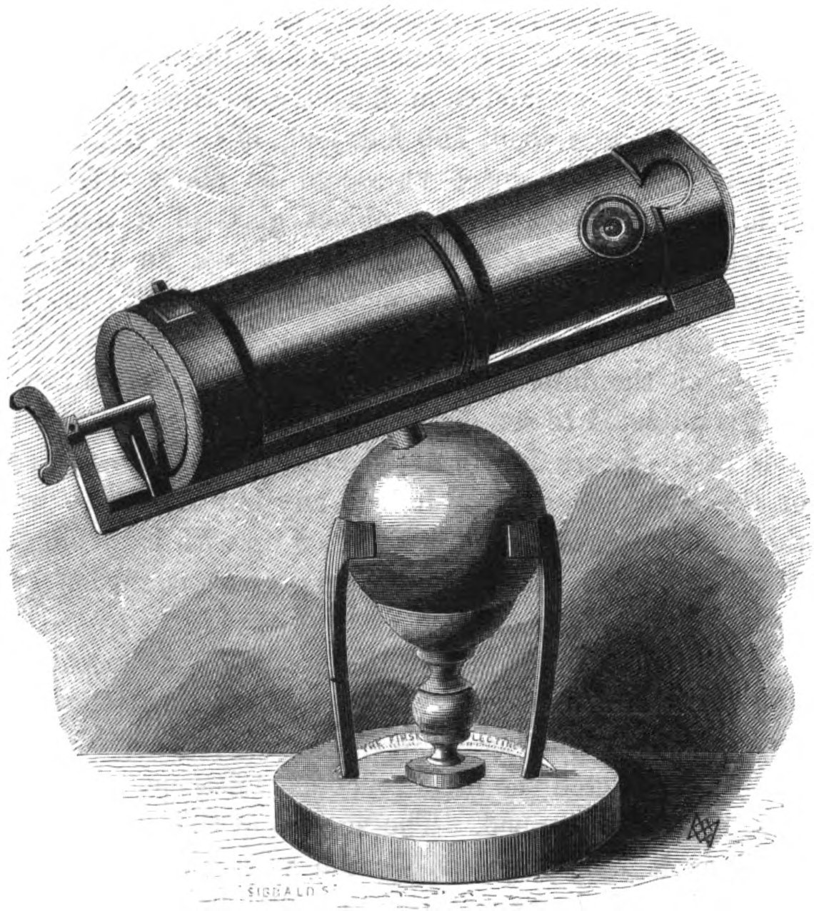 The first reflecting telescope, built by British scientist Isaac Newton in 1668. It had a 6 in. aperture and magnified 40 times